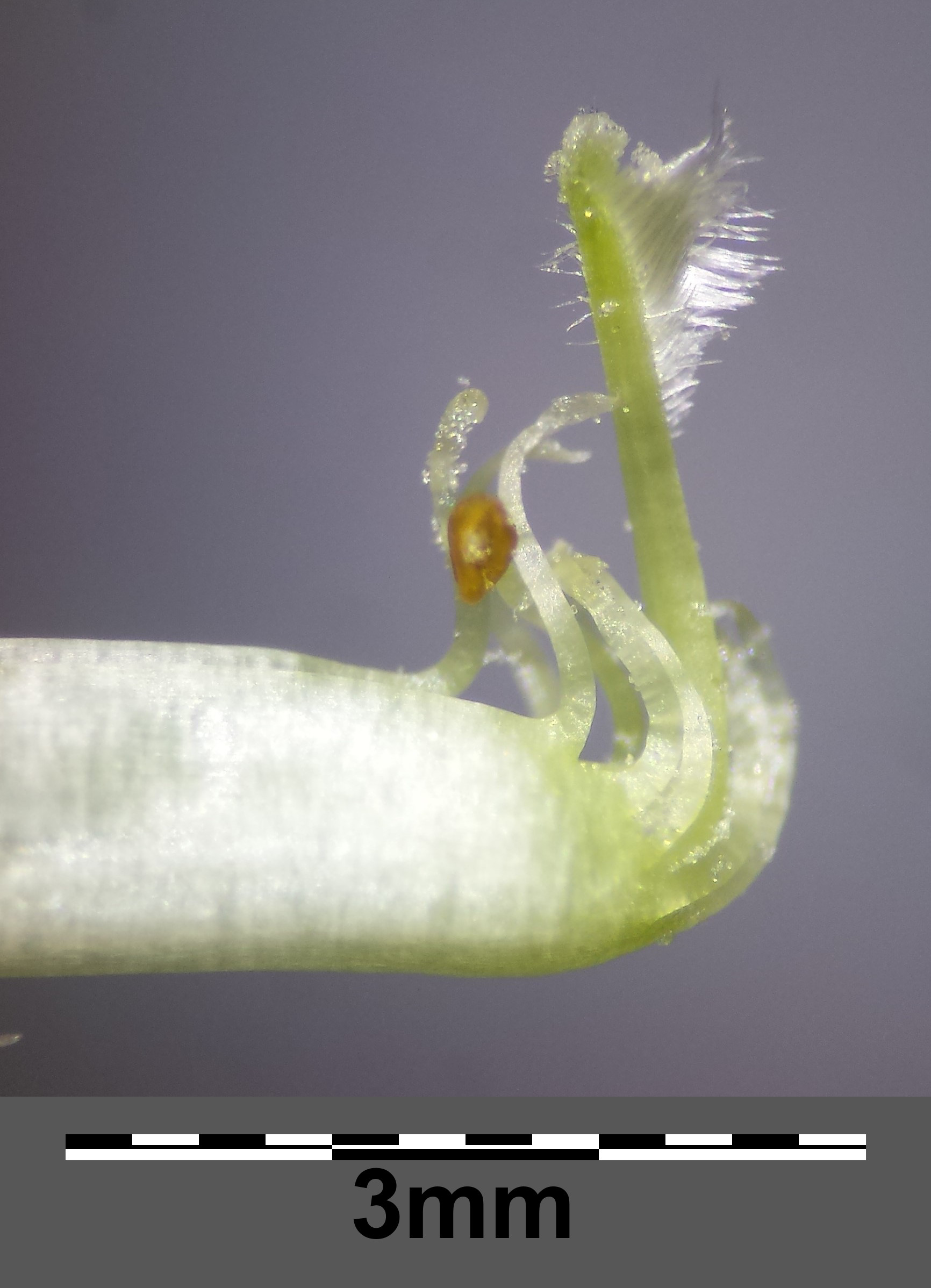 Fused stamens and stylus Taxonym: Vicia sepium ss Fischer et al. EfÖLS 2008 ISBN 978-3-85474-187-9 Location: Rohrwald, district Korneuburg, Lower Austria - ca. 260 m a.s.l. Habitat: glade